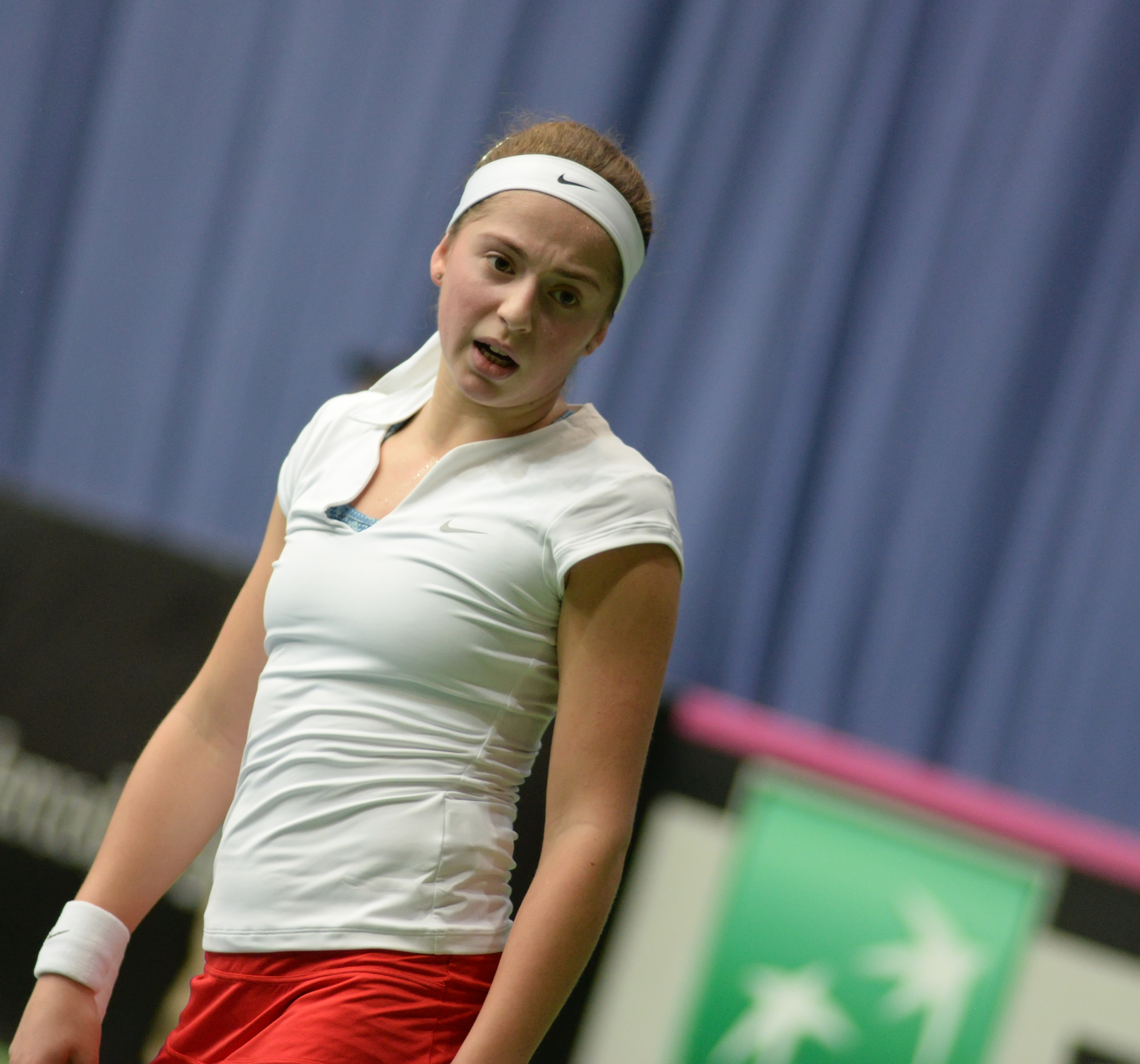 Jeļena Ostapenko at the 2015 Fed Cup